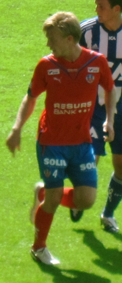 Swedish football player Andreas Landgren of Helsingborgs IF.